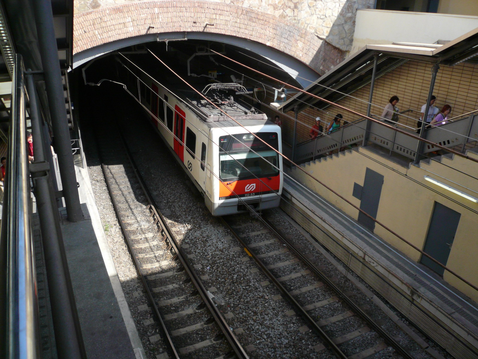 Peu del Funicular station, looking north to the platforms from the footbridge. A train is in the northbound platform.